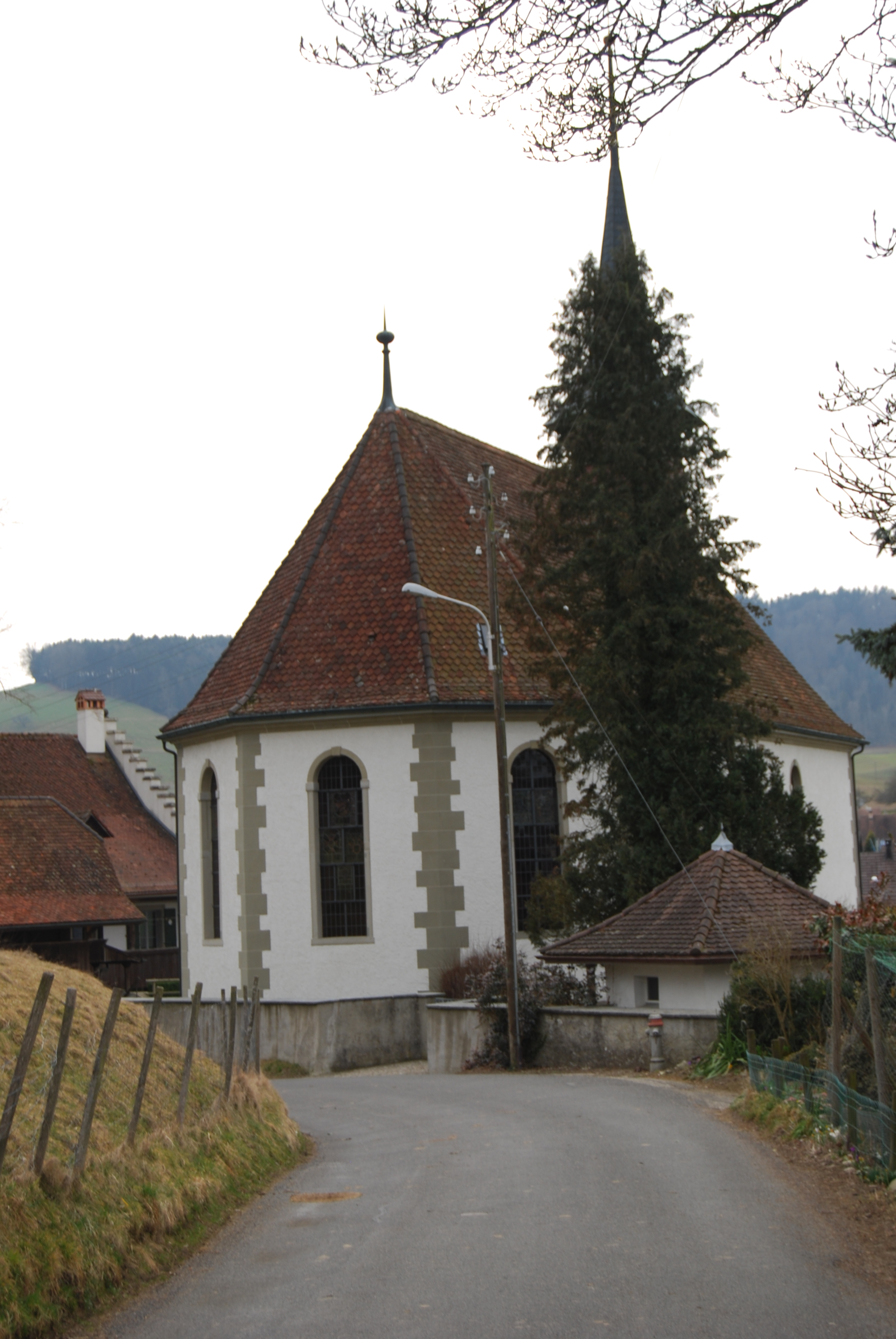 Protestant church of Melchnau, canton of Bern, Switzerland